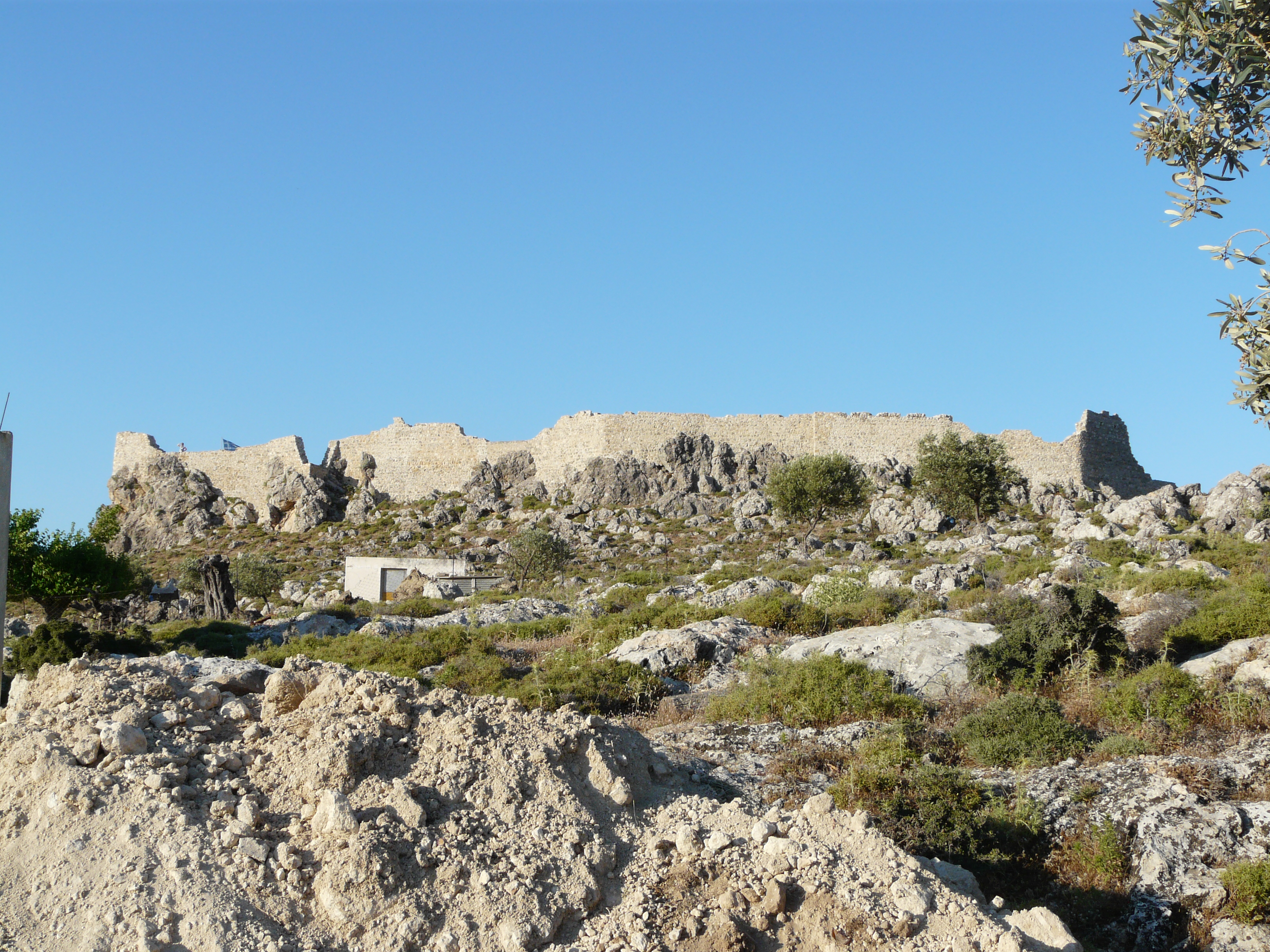 Archangelos (Rhodes). Ruins of the castle of Saint John